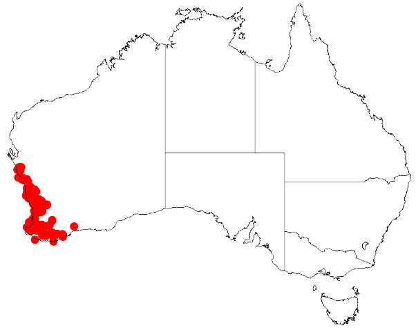 Scaevola lanceolata occurrence data downloaded from Australasian Virtual Herbarium 12 May 2019